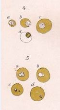 In 1868 Ernst Neumann (1834 - 1918) described the bone marrow as blood forming organ with its "Lymphoide Markzelle" later "stem cell". In 1874, he described the erythropoisis in steps forming the erythrocyte